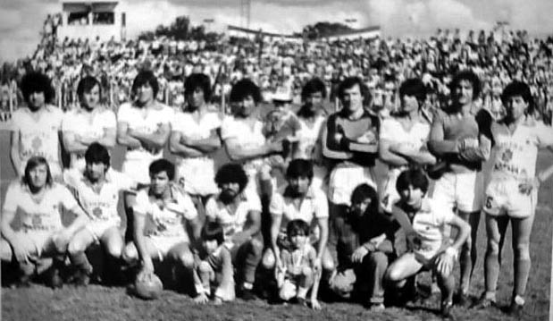 Team of C.A. San Miguel, champion of Primera C.